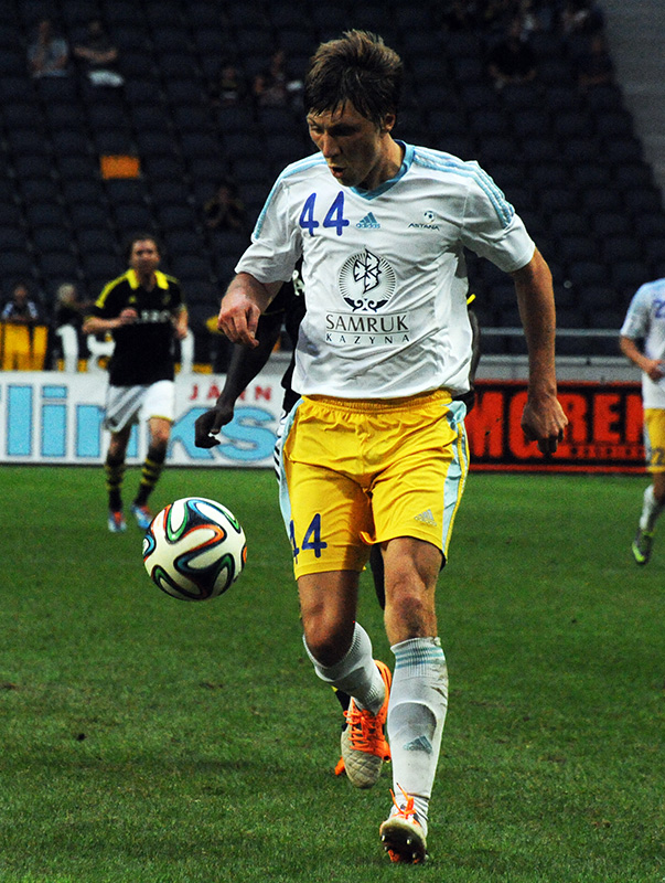 During AIK - FC Astana (2014).